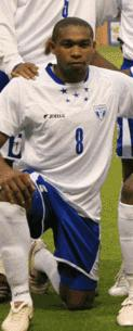 Wilson Palacios with the National Team